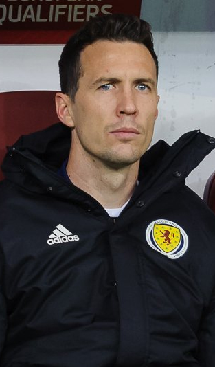 Scottish footballer Jon McLaughlin on 10 October 2019, during the 2020 UEFA European Championship qualifying match between Scotland and Russia in Moscow.